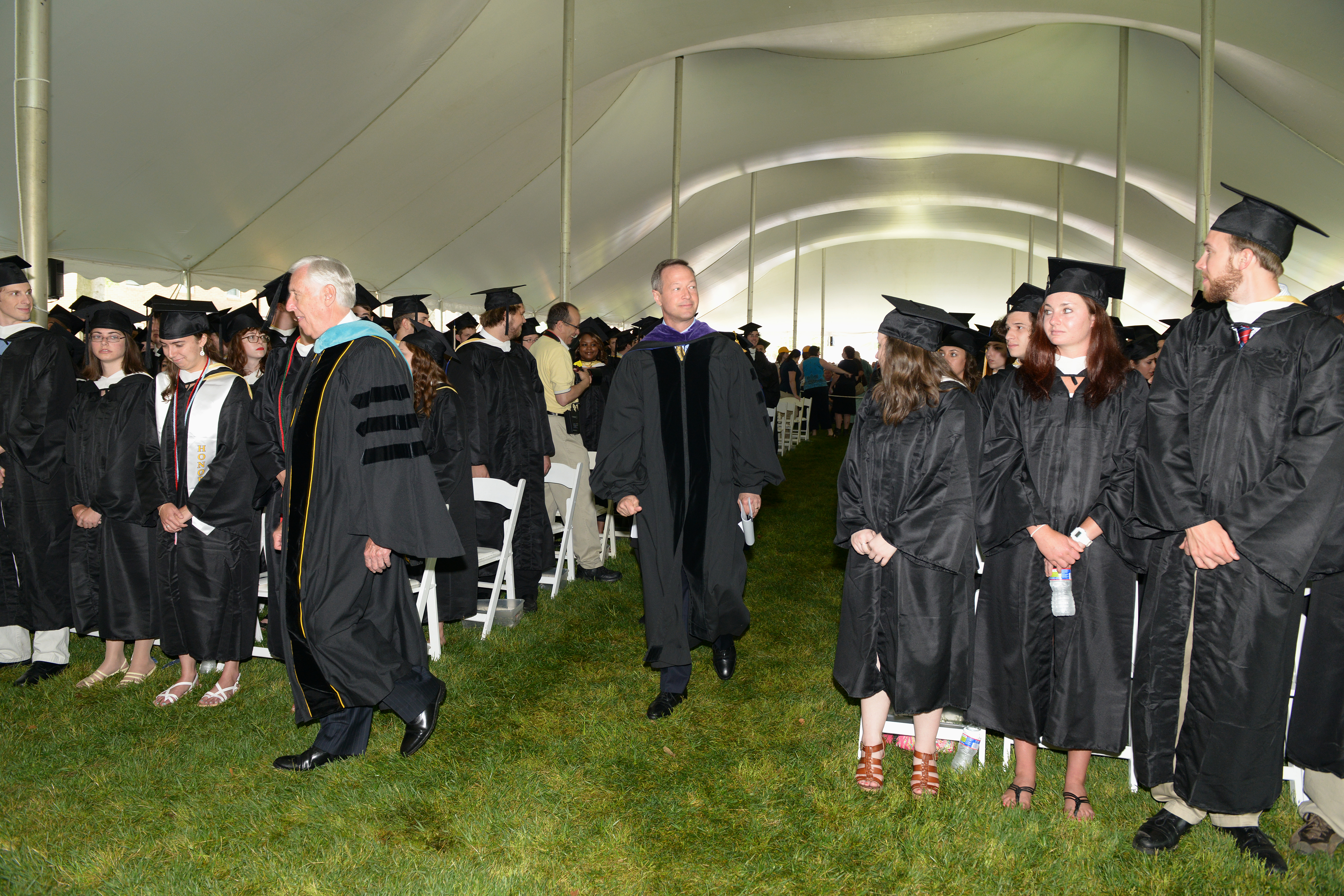 Governor Martin O'Malley speaks at St. Mary's College of Maryland commencement ceremony, 2013.